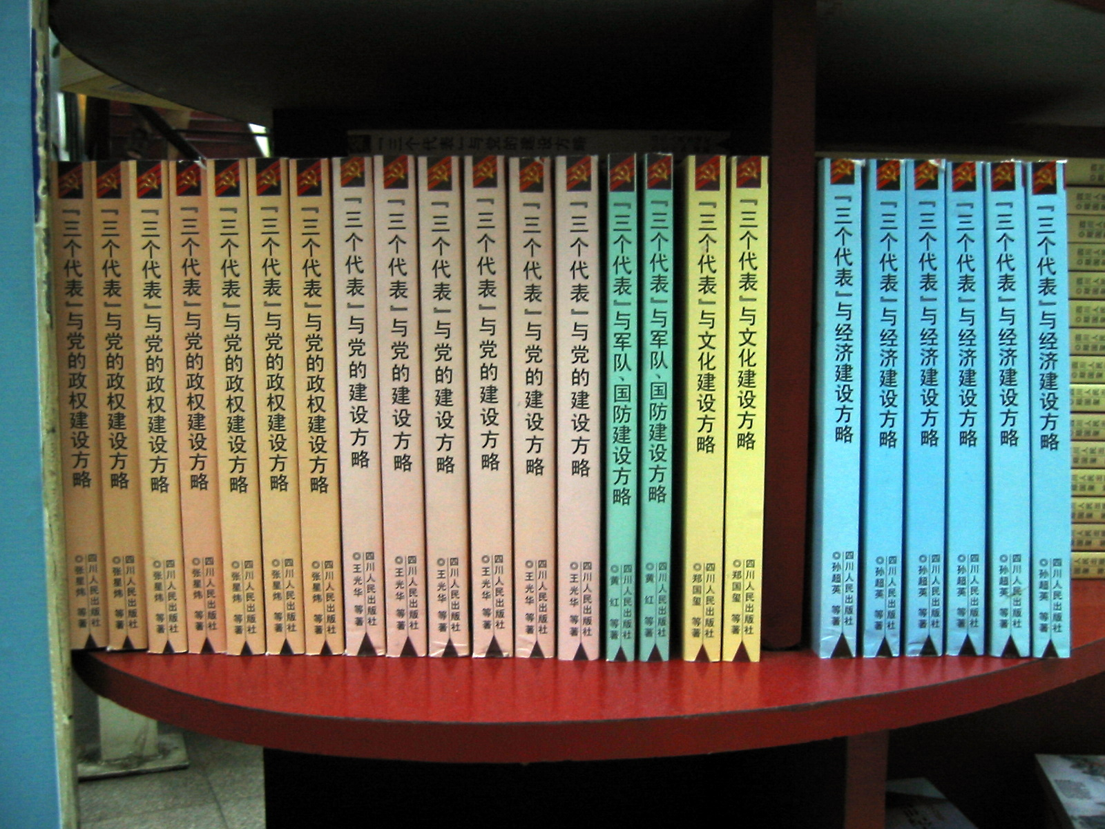 Taken in a Xinhua Bookstore, close to Chunxi Rd, Chengdu, Sichuan, China, on 8/25/2002.